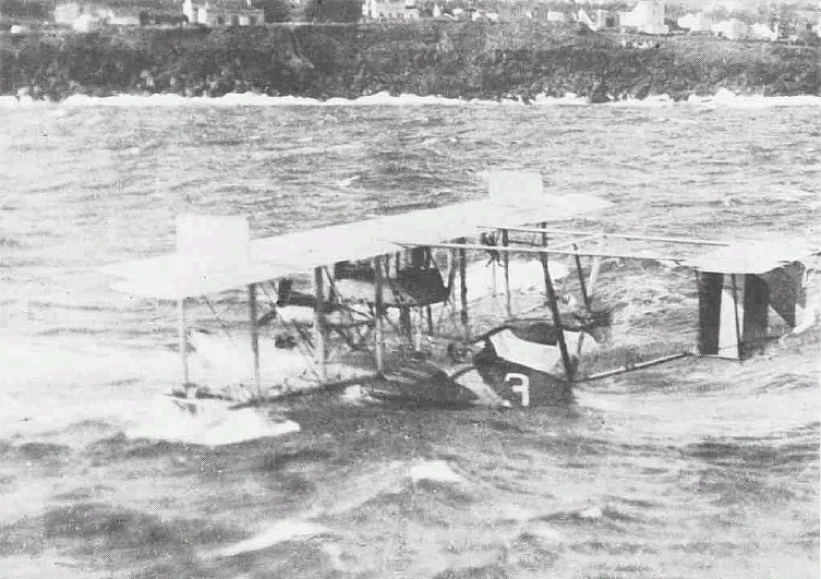 The U.S. Navy Curtiss NC-3 off Ponta Delgada, Azores Islands, 19 May 1919. Three U.S. Curtiss NCs (NC-1, NC-3 and NC-4) tried to cross the Atlantic in 1919, beginning on 8 May. They left Naval Air Station Rockaway, New York (USA) with intermediate stops in Cape Cod, Massachusetts, Chatham, Massachusetts and Halifax, Nova Scotia before reaching Trepassey, Newfoundland on 15 May 1919. On 16 May they left for the longest leg of their journey, to the Azores, with 22 warships stationed at 50 mile (80 km) intervals along the route. The NC-4 reached Horta in the Azores on the following afternoon, 1,200 miles (1,920 km) and 15 hours 18 minutes later, having encountered thick fogbanks along the route; the NC-1 and the NC-3 were both forced to land at sea due to rough weather; the crew of the NC-1 was rescued by the Greek freighter Ionia, the NC-1 sinking three days later; the crew of the NC-3 managed to sail their flying-boat to, Ponta Delagda, Azores, where it was taken in tow by a U.S. warship, arriving in 19 May 1919.